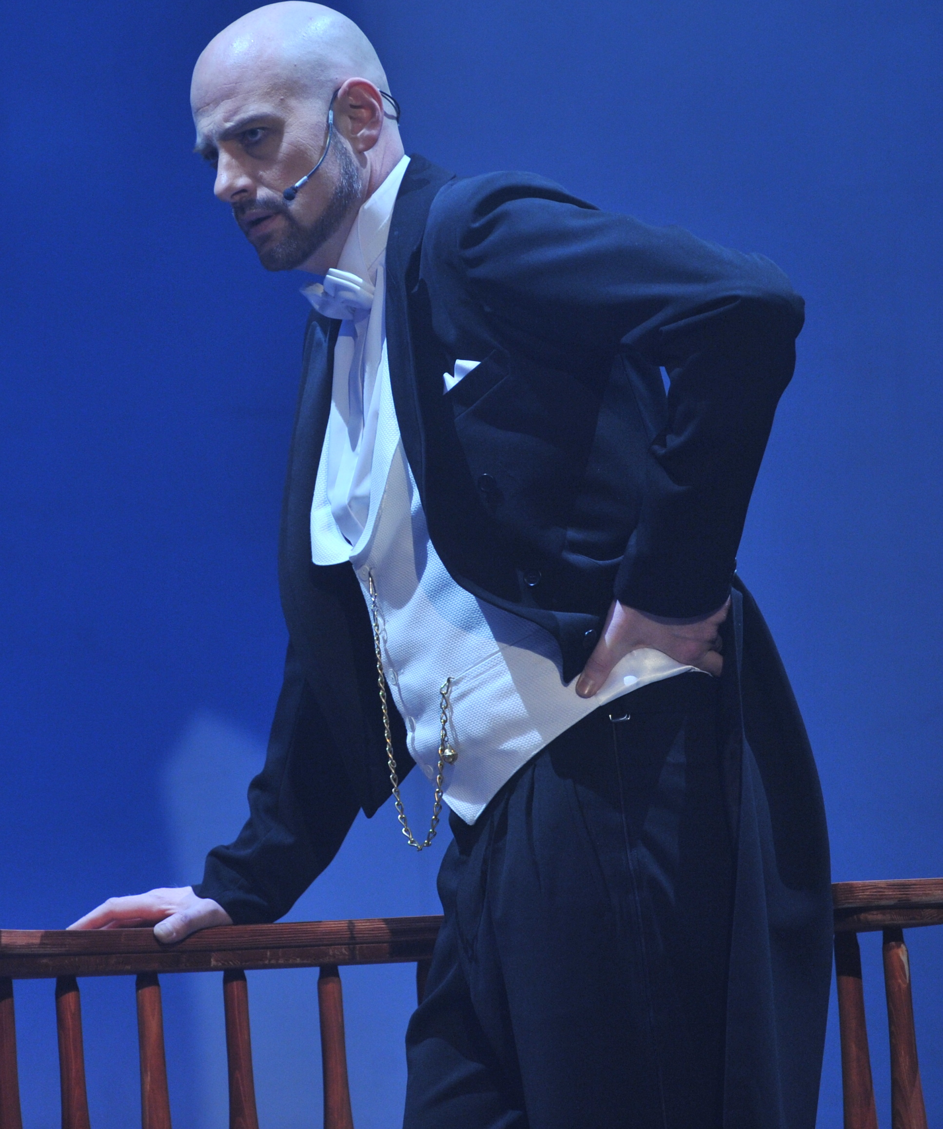 Igor Ondříček